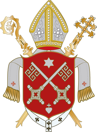 Coat of arms of Archdiocese of Hamburg. Source: erzbistum-hamburg.de